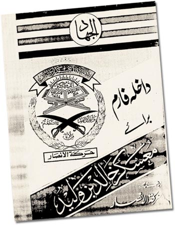 A registration form for Harkat’s Khalid bin Whalid training camp. The form says ‘‘Jihad’’ on the top of the page, and common Islamic prayers cover the group’s seal. The form asks for a recruit’s name, age, nationality, religious education, code name, skills, languages, military experience and blood type.